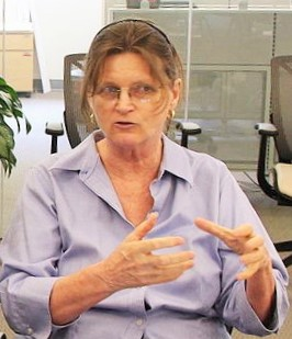 Dr. Nancy Knowlton at World Oceans Day editathon at Wiatt Institute